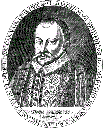 Joachim Frederick, Elector of Brandenburg (1546-1608)